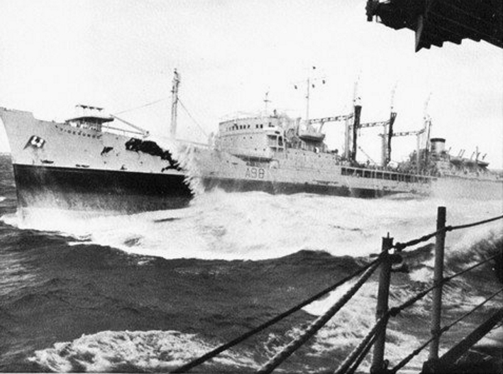 The British Royal Fleet Auxiliary RFA Tidesurge (A98) refuels the U.S. Navy aircraft carrier USS Forrestal (CVA-59) on 25 August 1967 in heavy seas between Madagascar and the Cape of Good Hope. Forrestal, with assigned to Attack Carrier Air Wing 17 (CVW-17), was deployed to Vietnam from 6 June to 14 September 1967. Forrestal had experienced a devastating fire on 29 July. After temporary repairs at Subic Bay, Philippines, she was on her way to the Norfolk Naval Shipyard, Virginia (USA).